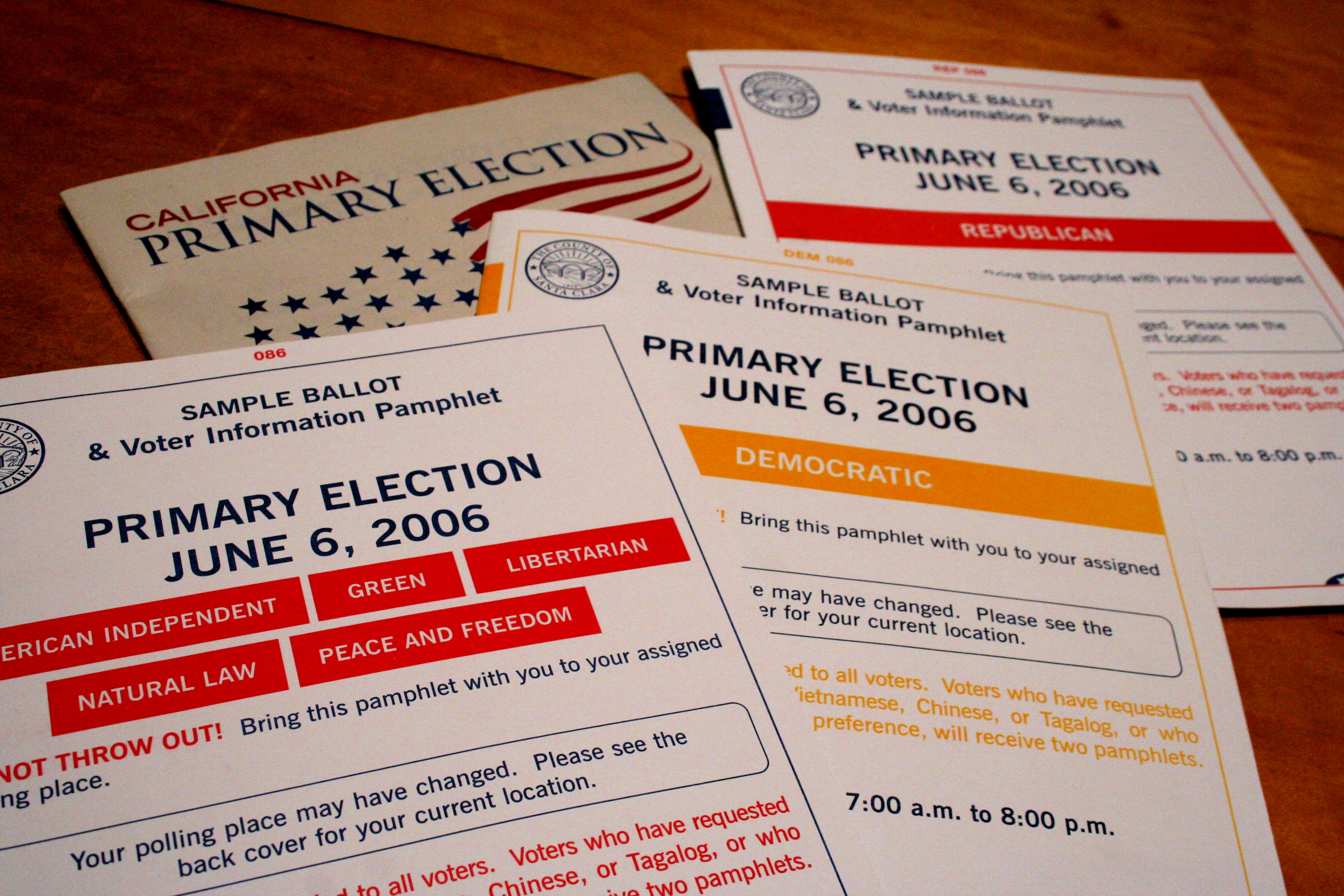 Voter information pamphlets for California, USA. These pamphlets include sample ballots and other information for the Republican, Democratic, and other minor political parties of the US.